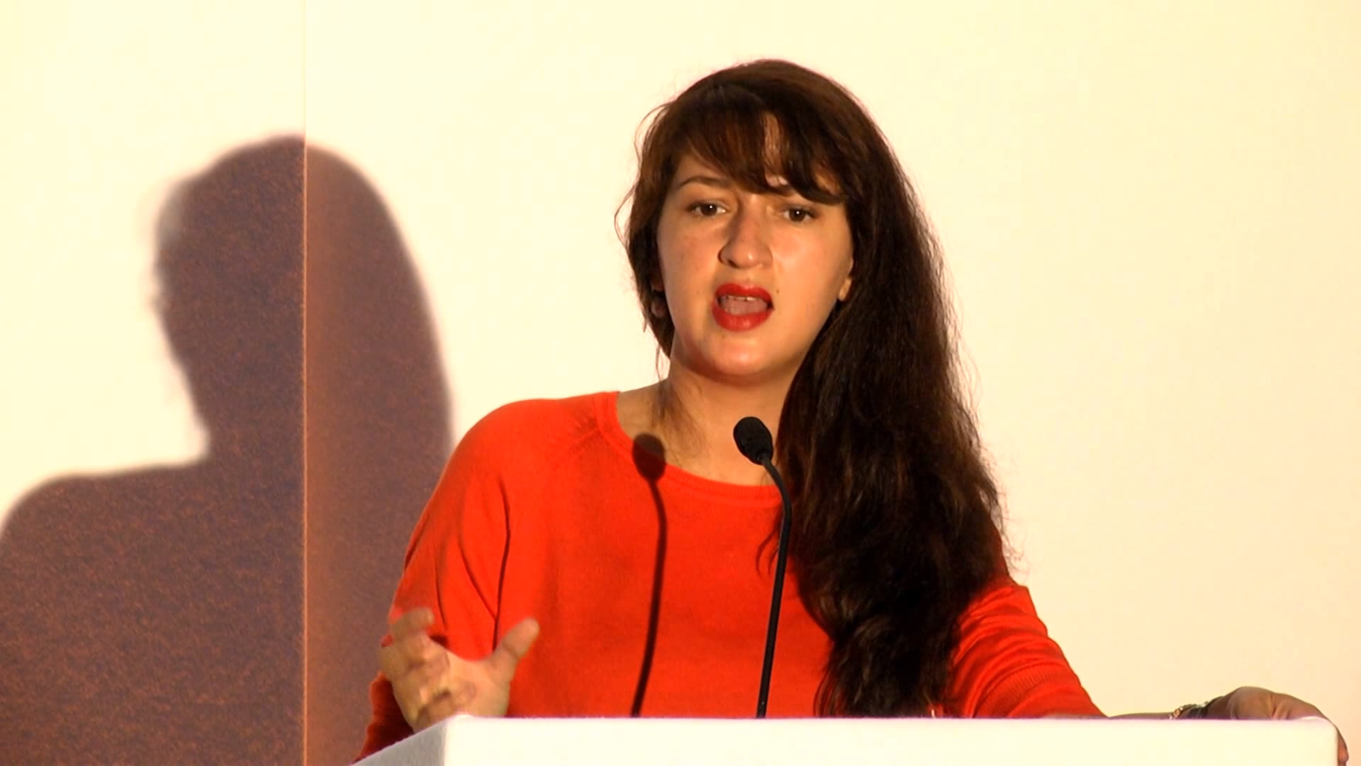 Zineb El Rhazoui speaking about "Destroying Islamic Fascism" at the International Conference on Free Expression and Conscience, London, 22-24 July 2017.